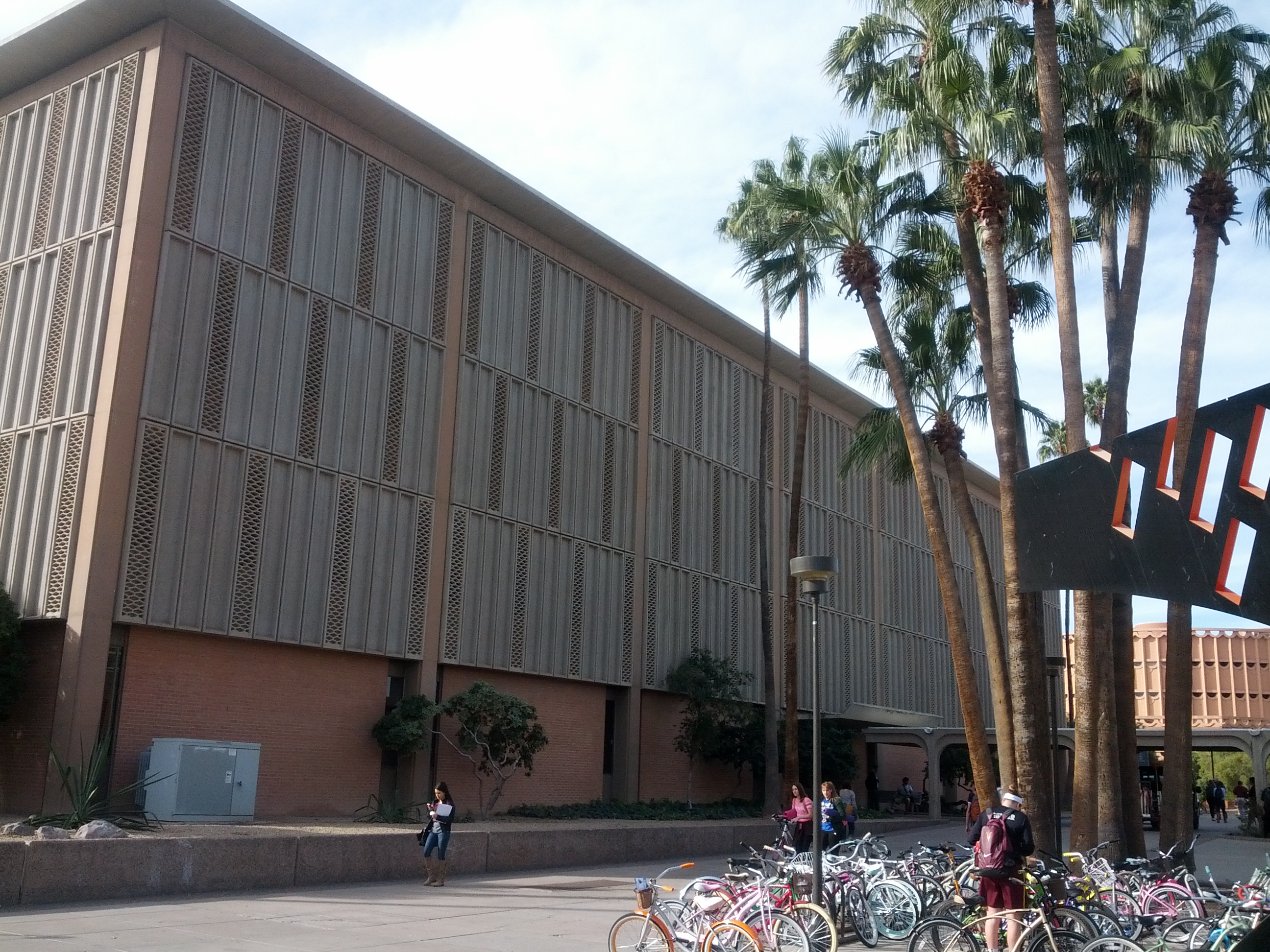 The north side of the (Hiram Bradford) Farmer Education Building, located in Arizona State University at the Tempe campus.